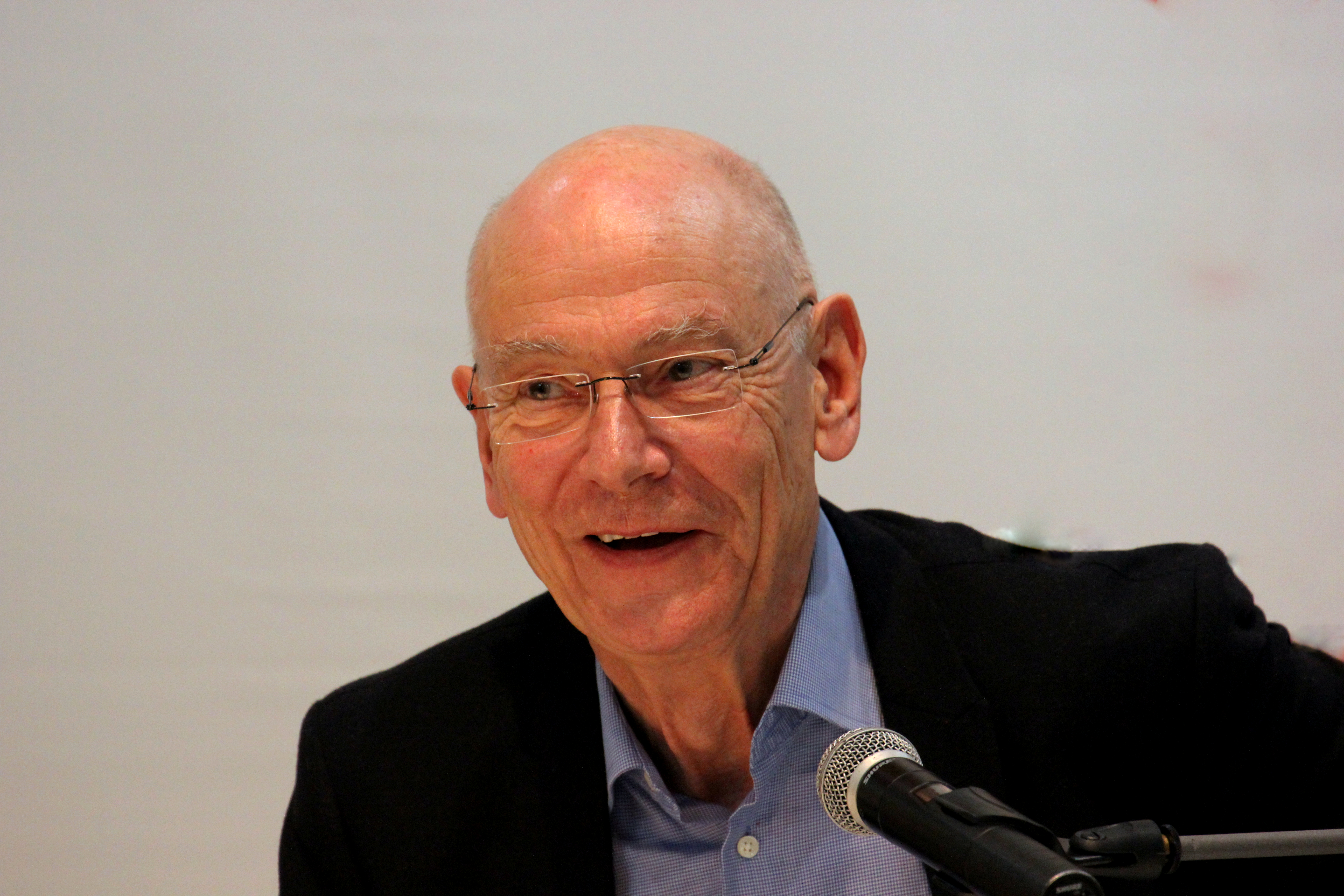 Gert Heidenreich at Leipzig Book Fair 2016